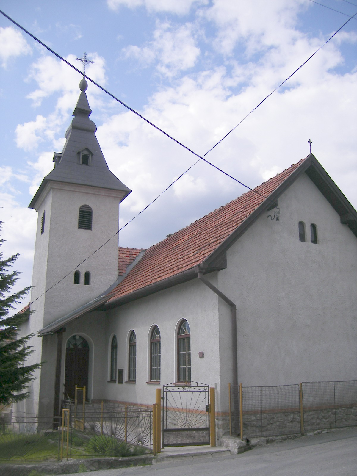 Turčianske Kľačany - church